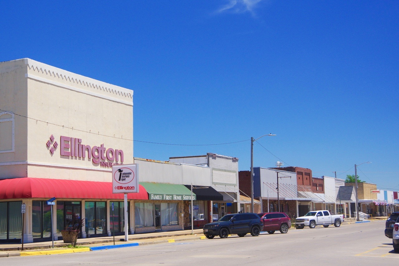 Businesses along Main Street in Portageville, Missouri, United States